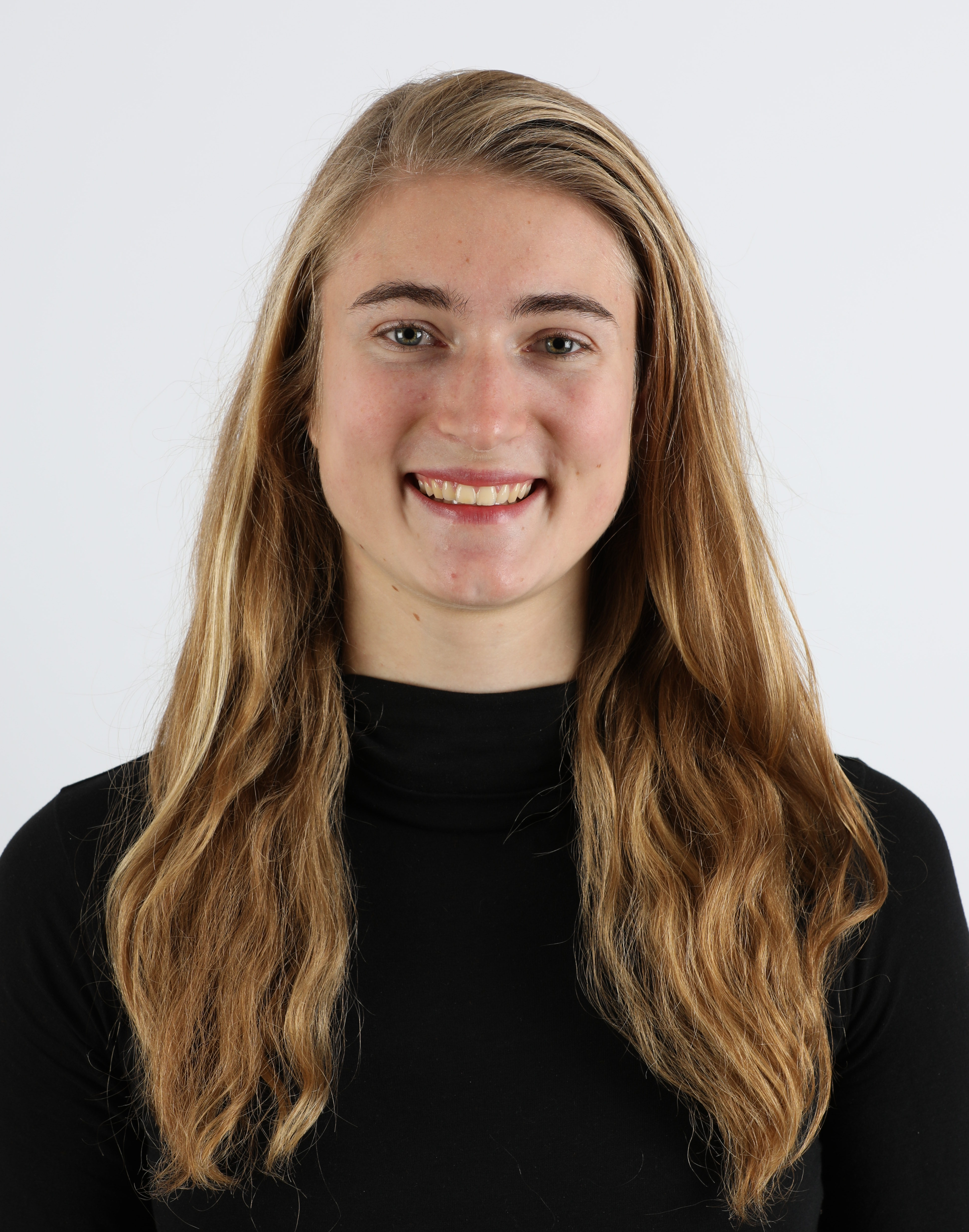 Athletes' photo project at the 2018/19 Innsbruck-Igls Luge World Cup: Madeleine Egle (Austria)